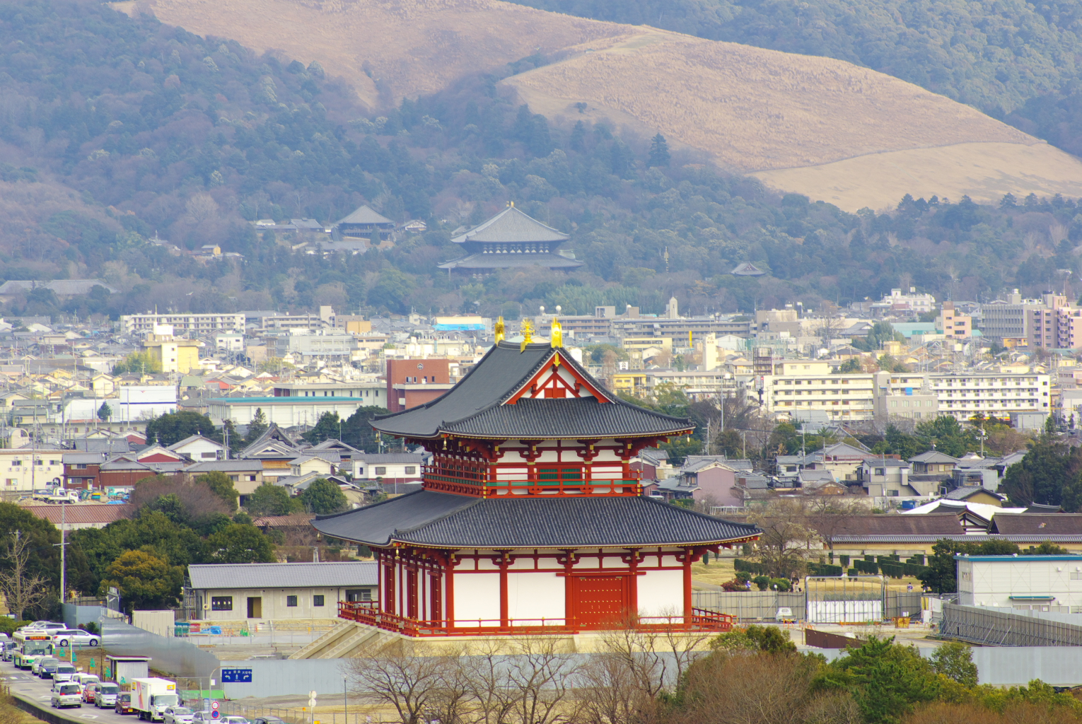 The primary building, i.e. the Daigoku-den at the Heijō Palace (At the photograph's center, under repair). Tōdai-ji's Daibutsuden and Wakakusayama can be seen in the rear (January, 2010).